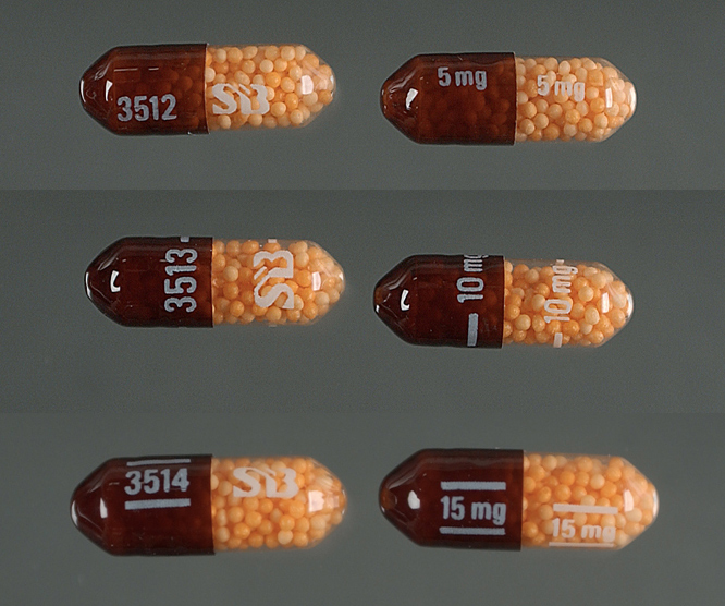 Dexedrine